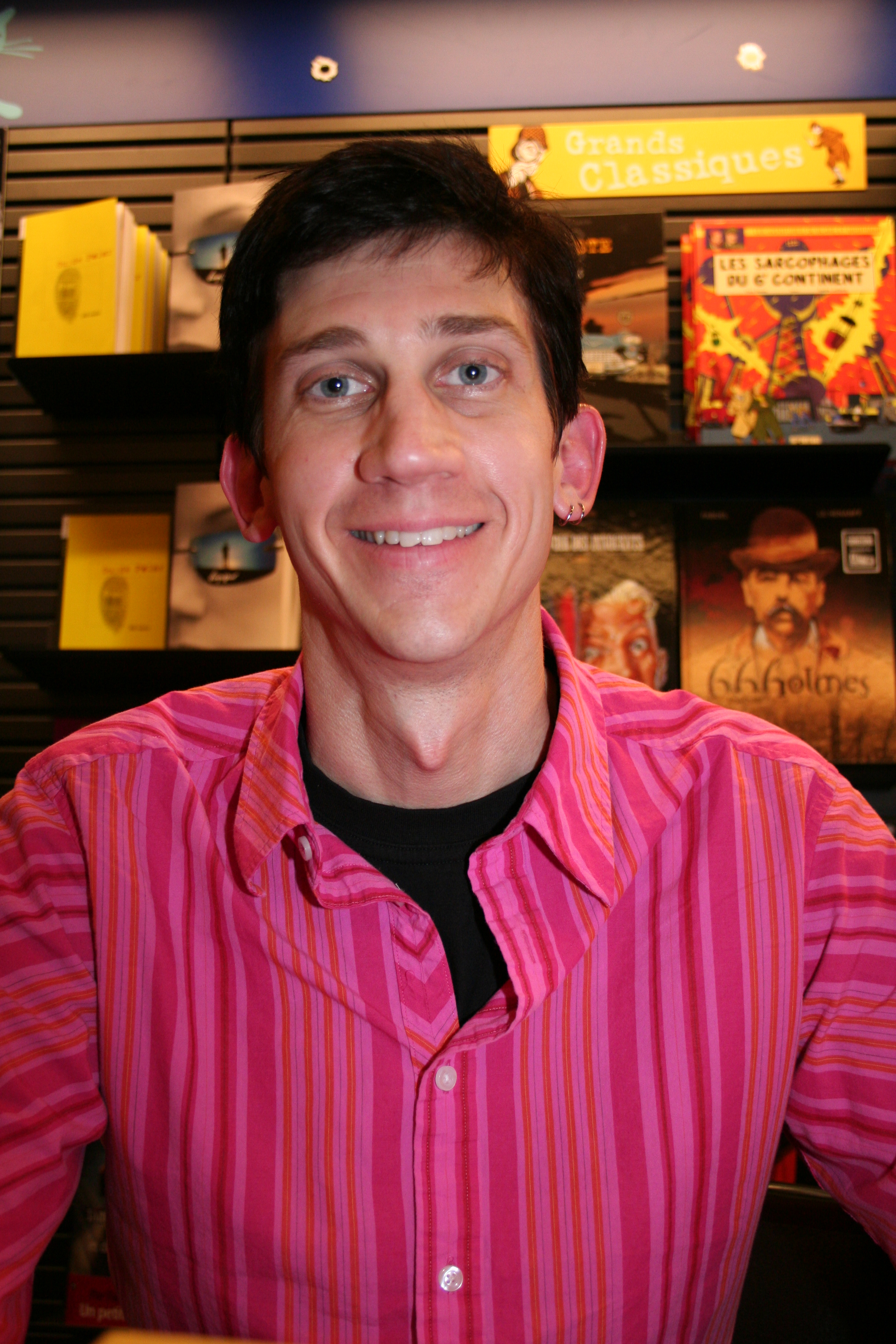 Autograph session with Eric Shanower at Fnac Saint-Lazare (Paris, France).